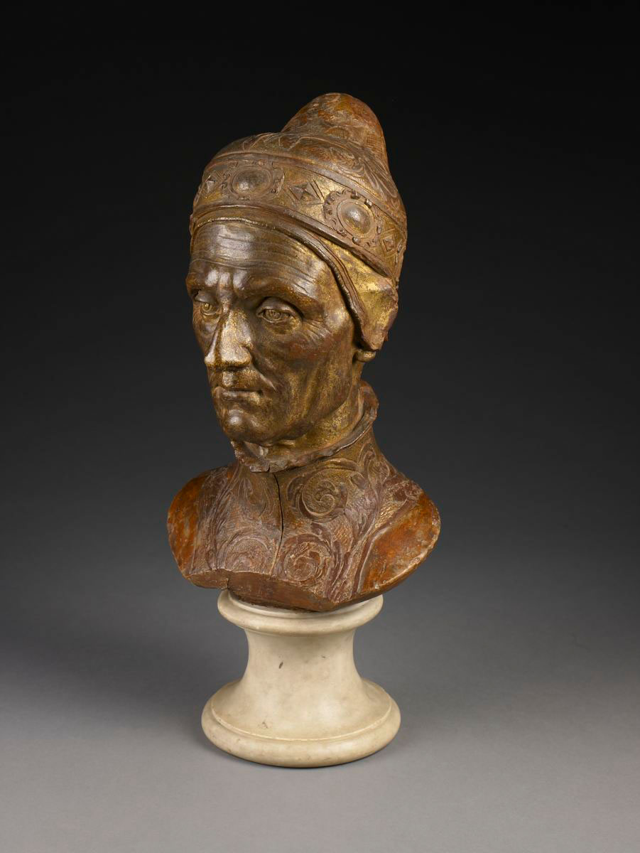 Terracotta bust of Leonardo Loredan, a Venetian ruler in the sixteenth century. The artist is unknown, but likely worked in the circle of Danese Cattaneo.